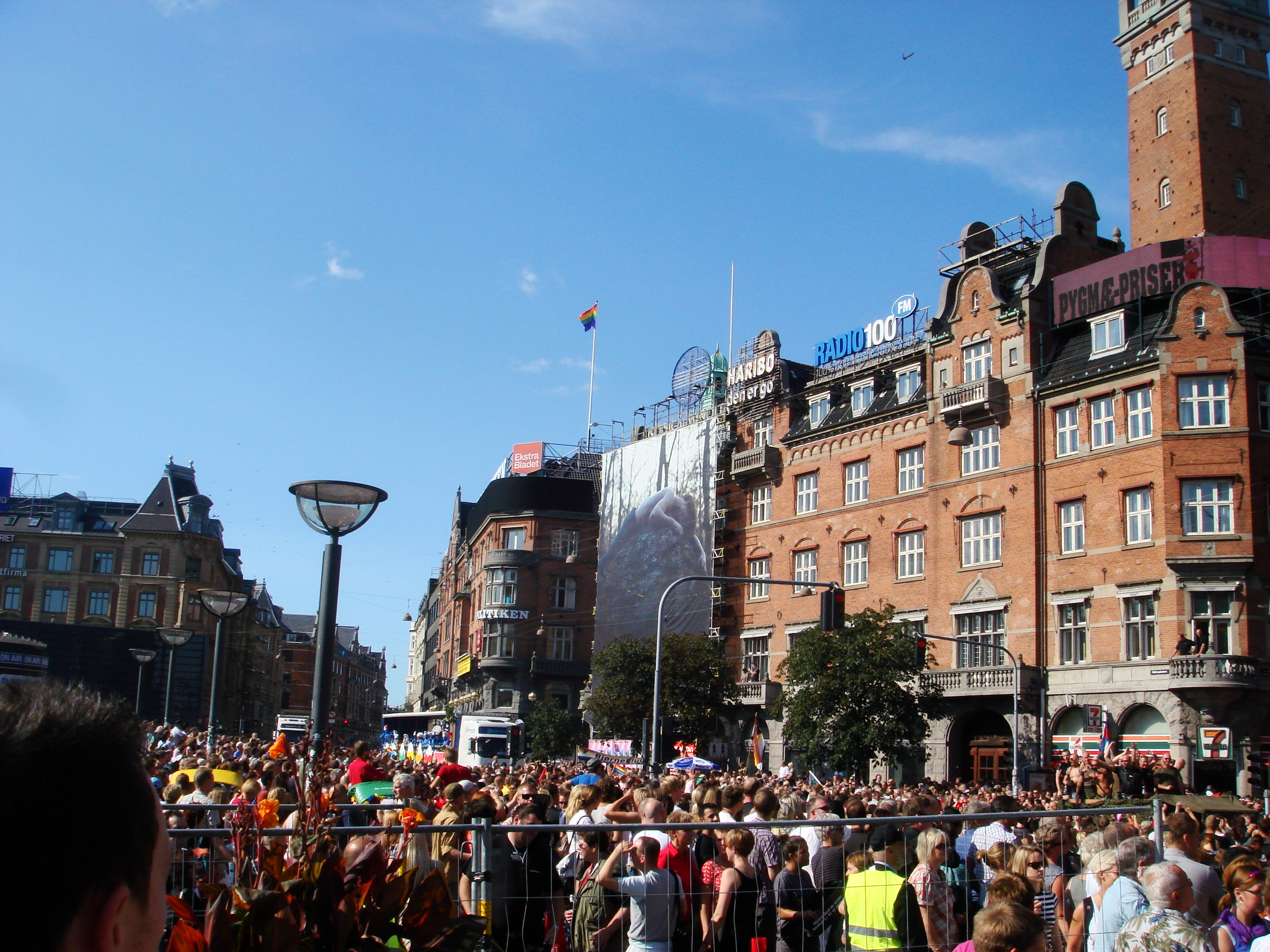 Copenhagen gay pride 2008. Picture by Stefano Bolognini.